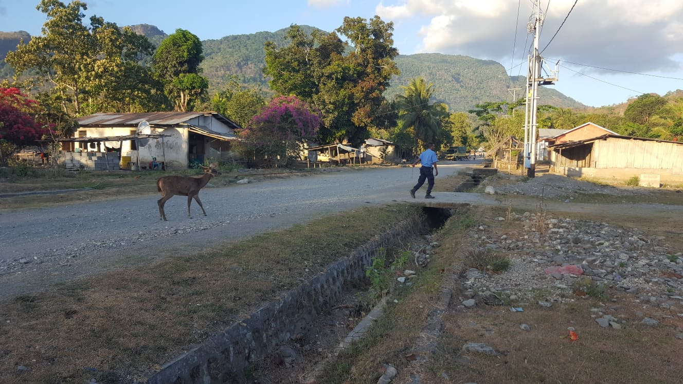 Dilor, East Timor